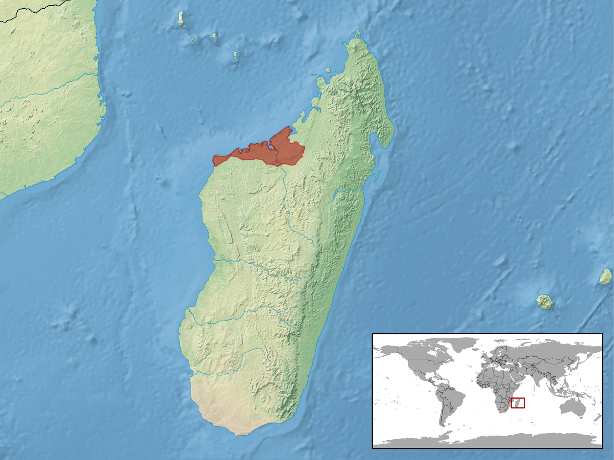 geographic distribution of Furcifer rhinoceratus (Native: Madagascar)